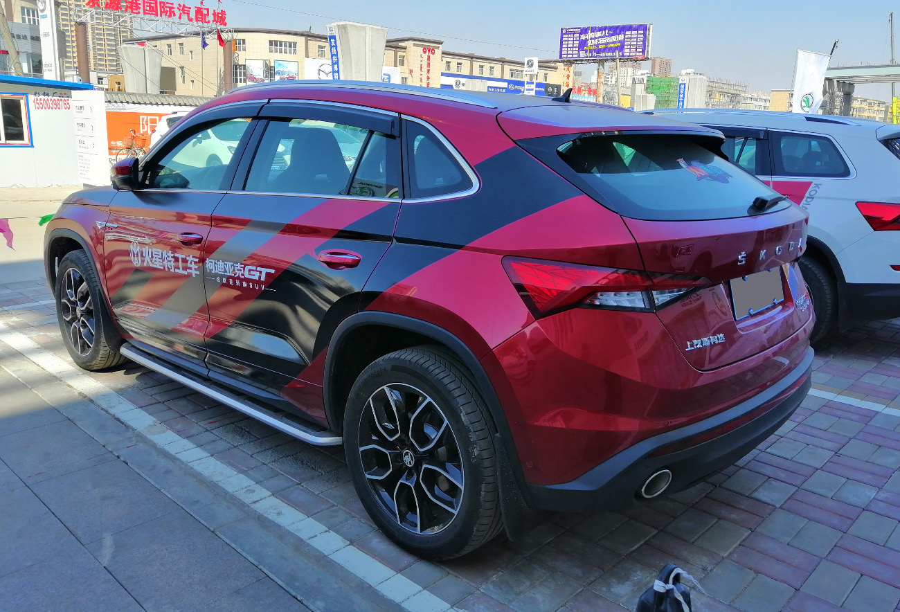 Škoda Kodiaq GT photographed in Hohhot, Inner Mongolia autonomous region, China.